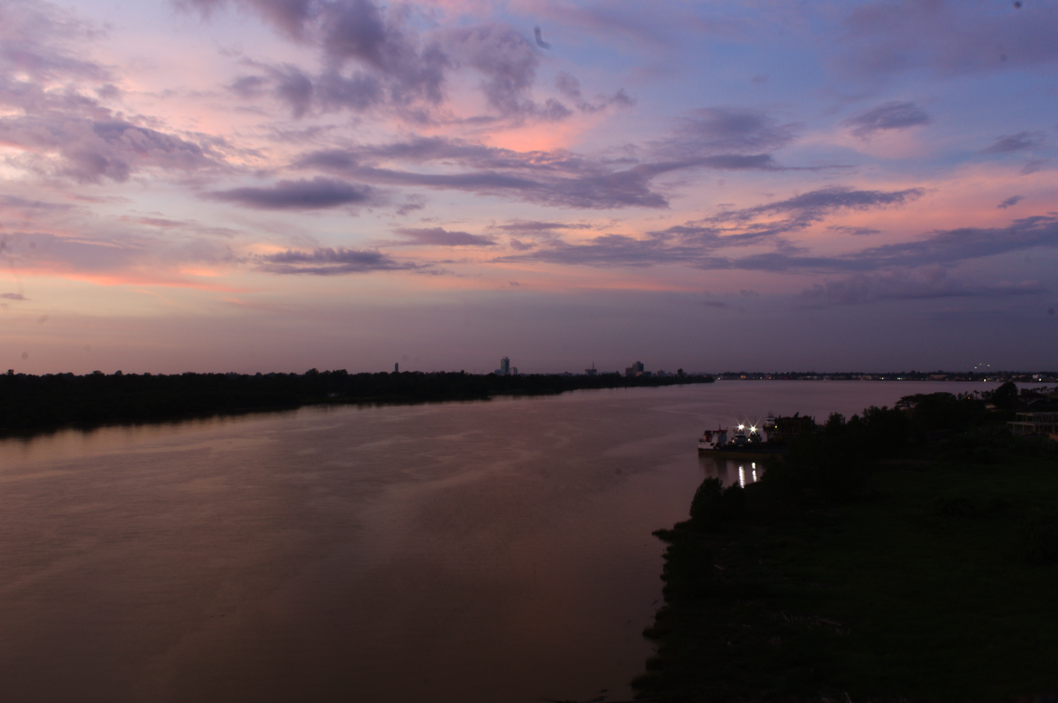 View of Rajang river during sunset. Photo taken from the top of the Lanang bridge.